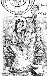 Photograph of a medieval artwork, showing a psalterio or cythara. From a Carolingian (i.e. French) Psalter, 9th century manuscript.